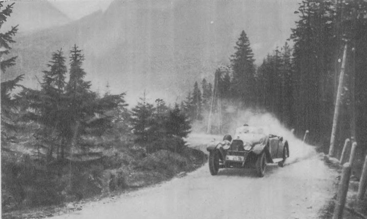 3rd International Tatra Rally, Poland, August 1930. Maria Koźmianowa in Austro-Daimler.